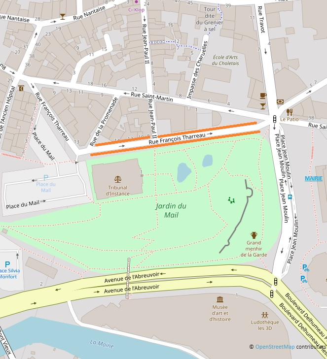 Between Saint-Martin street and Saint-Bonaventure street